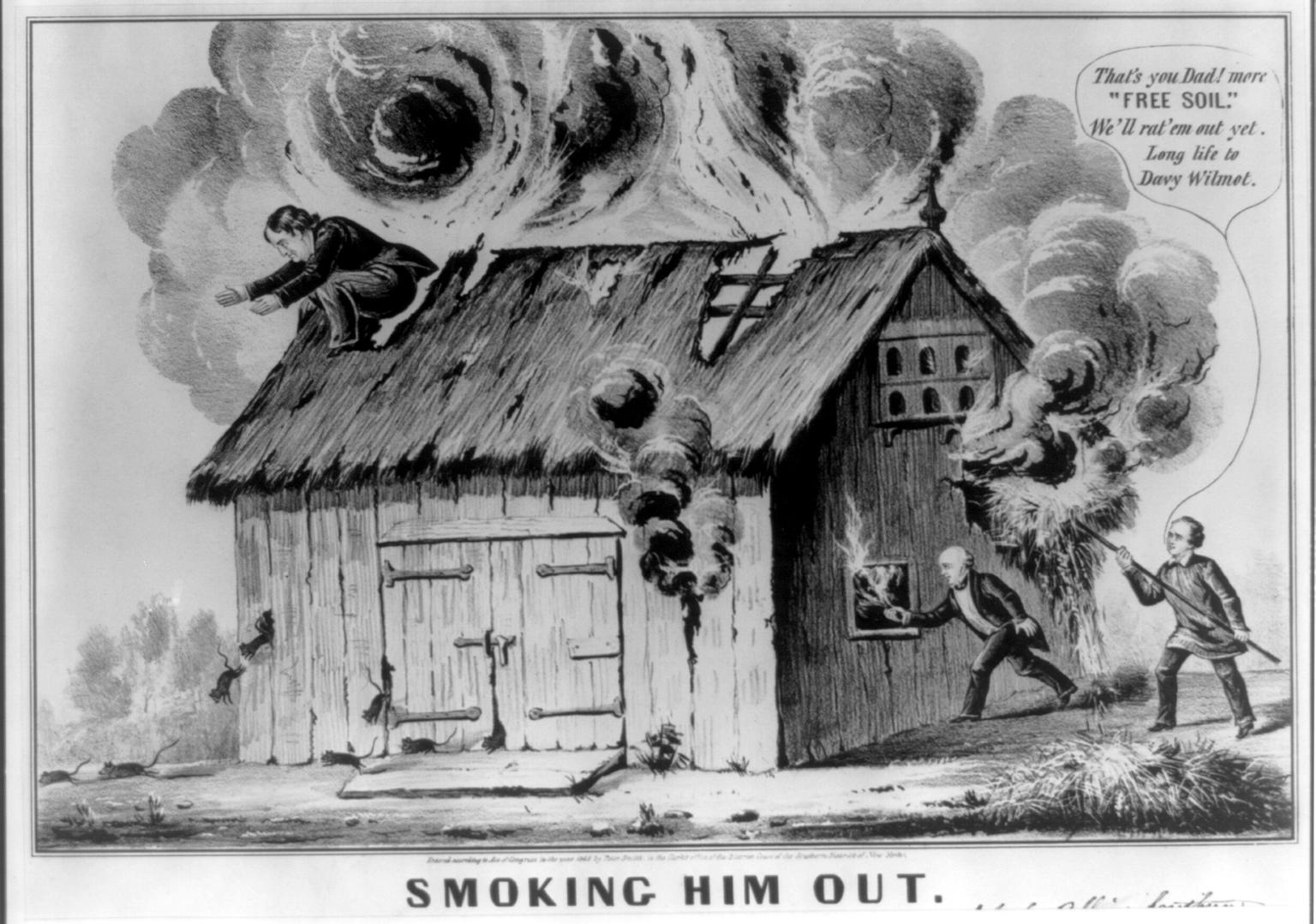 "A humorous commentary on Barnburner Democrat Martin Van Buren's opposition to regular Democratic party nominee Lewis Cass. Van Buren and his son John were active in the Free Soil effort to prevent the extension of slavery into new American territories. In this he opposed the conservative Cass, who advocated deferring to popular sovereignty on the question. In "Smoking Him Out," Van Buren and his son (wearing smock, far right) feed an already raging fire in a dilapidated barn. (radical New York Democrats supporting Van Buren were referred to as "Barnburners" because in their zeal for social reforms and anticurrency fiscal policy they were likened to farmers burning their barns to drive out the rats)."